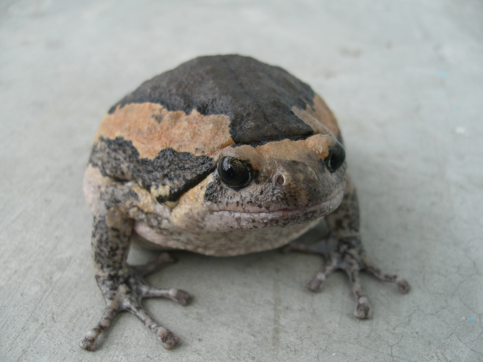 A Toad in Thailand (Kaloula pulchra)